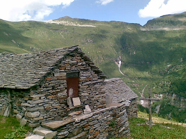 Perfect landing at sul'Alpe Corte Nuovo where I made a visit to the Cascine, and then glued to land a ride Gerra Verzasca.